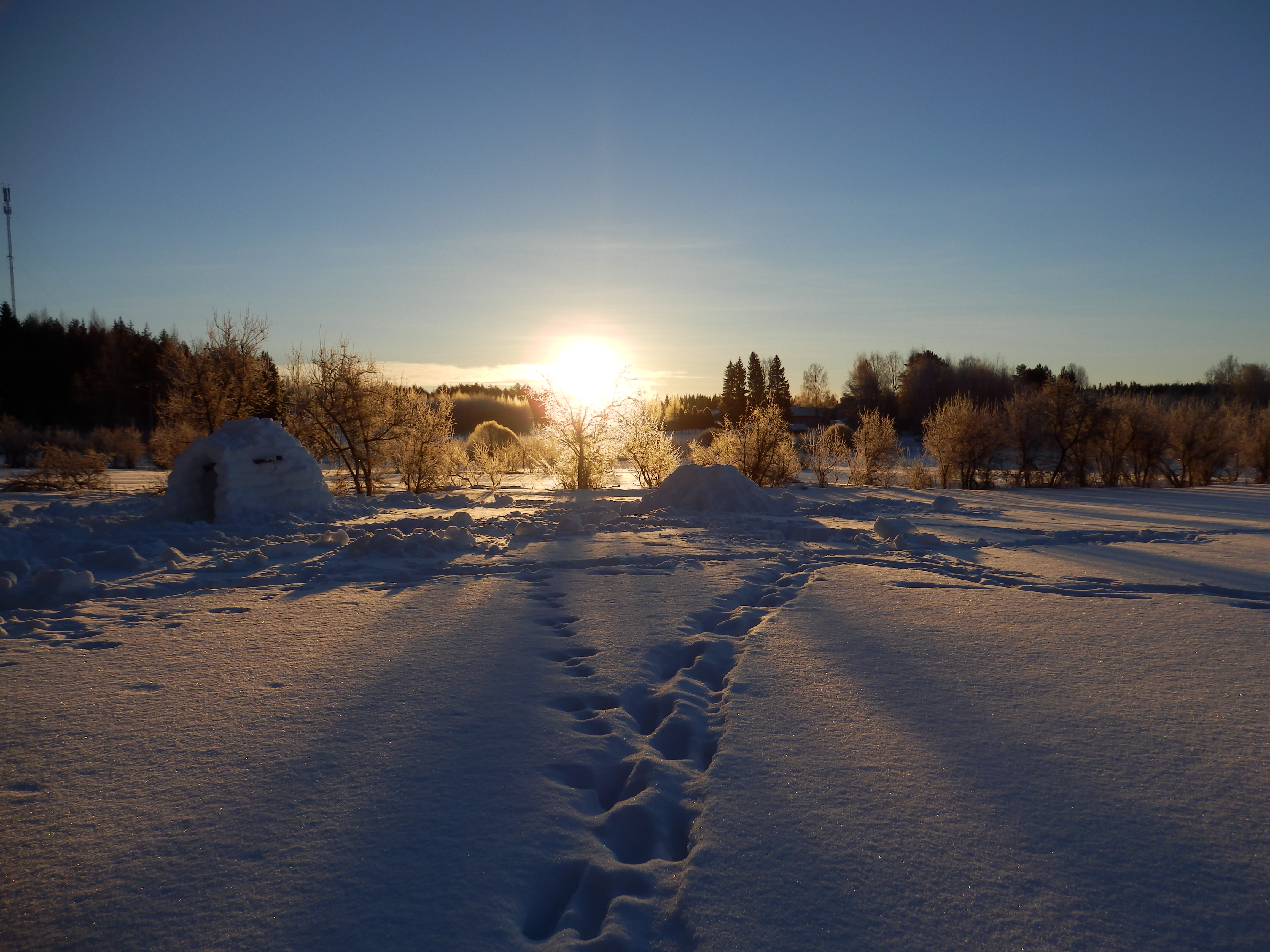 Sunrise North Karelia, Finland.